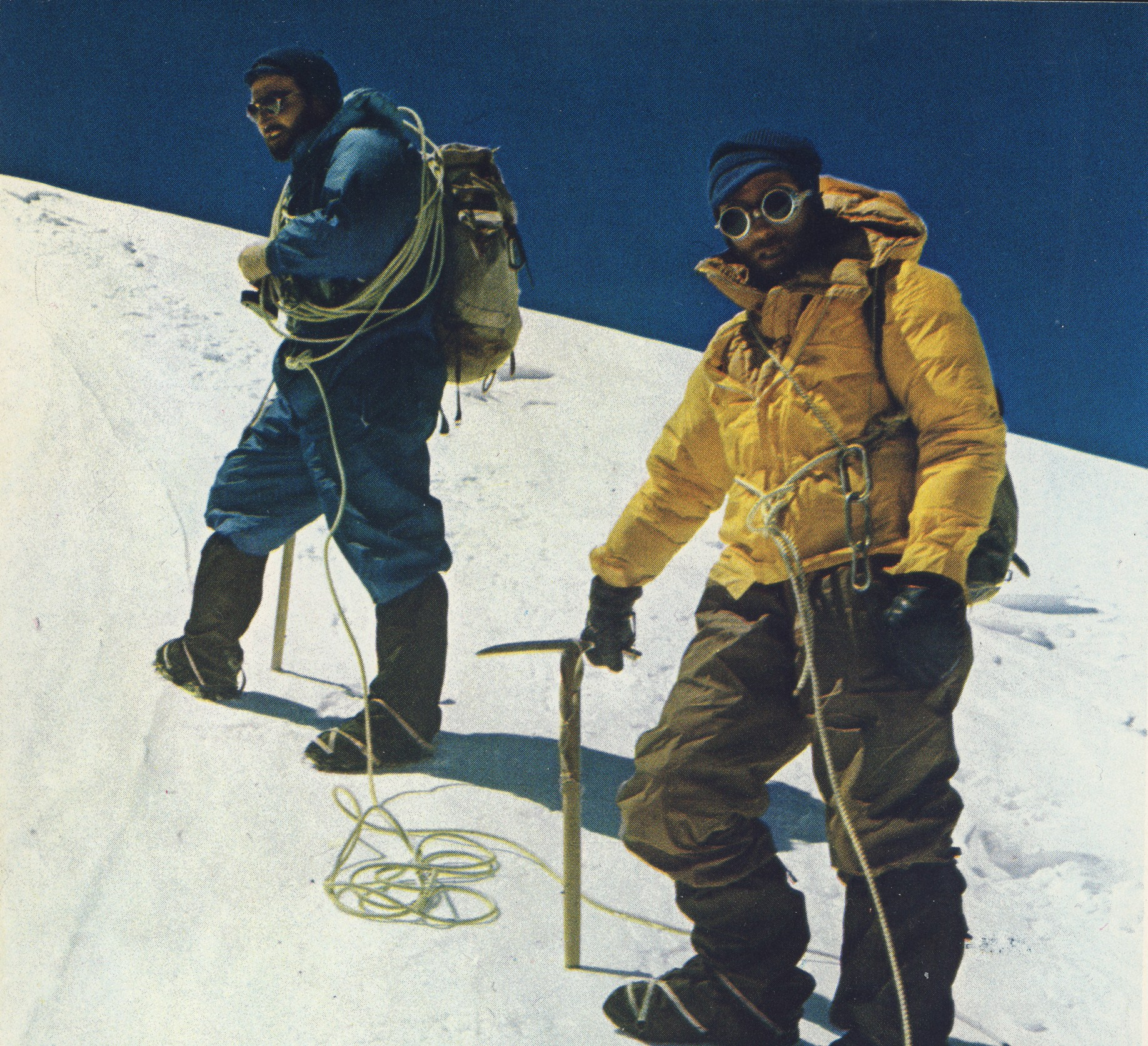 Franco Alletto (on the left) and Paolo Consiglio (on the right) during the expedition on Saraghrar Peak (Hindu Kush, Pakistan)